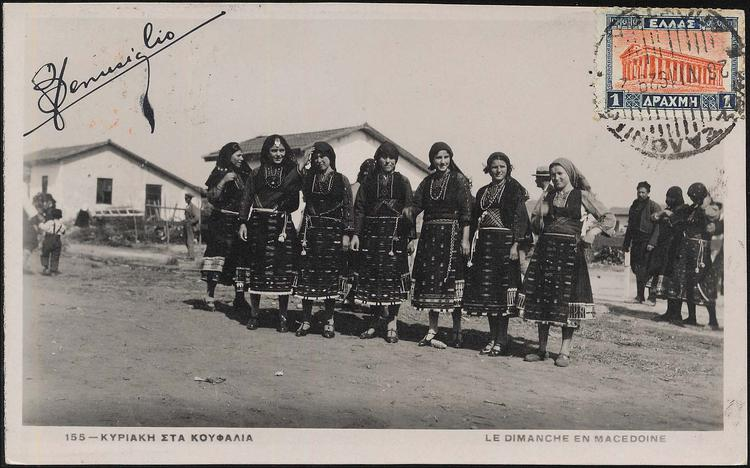 Young girls in traditional costums from Kufalovo or Kufalia, Greece